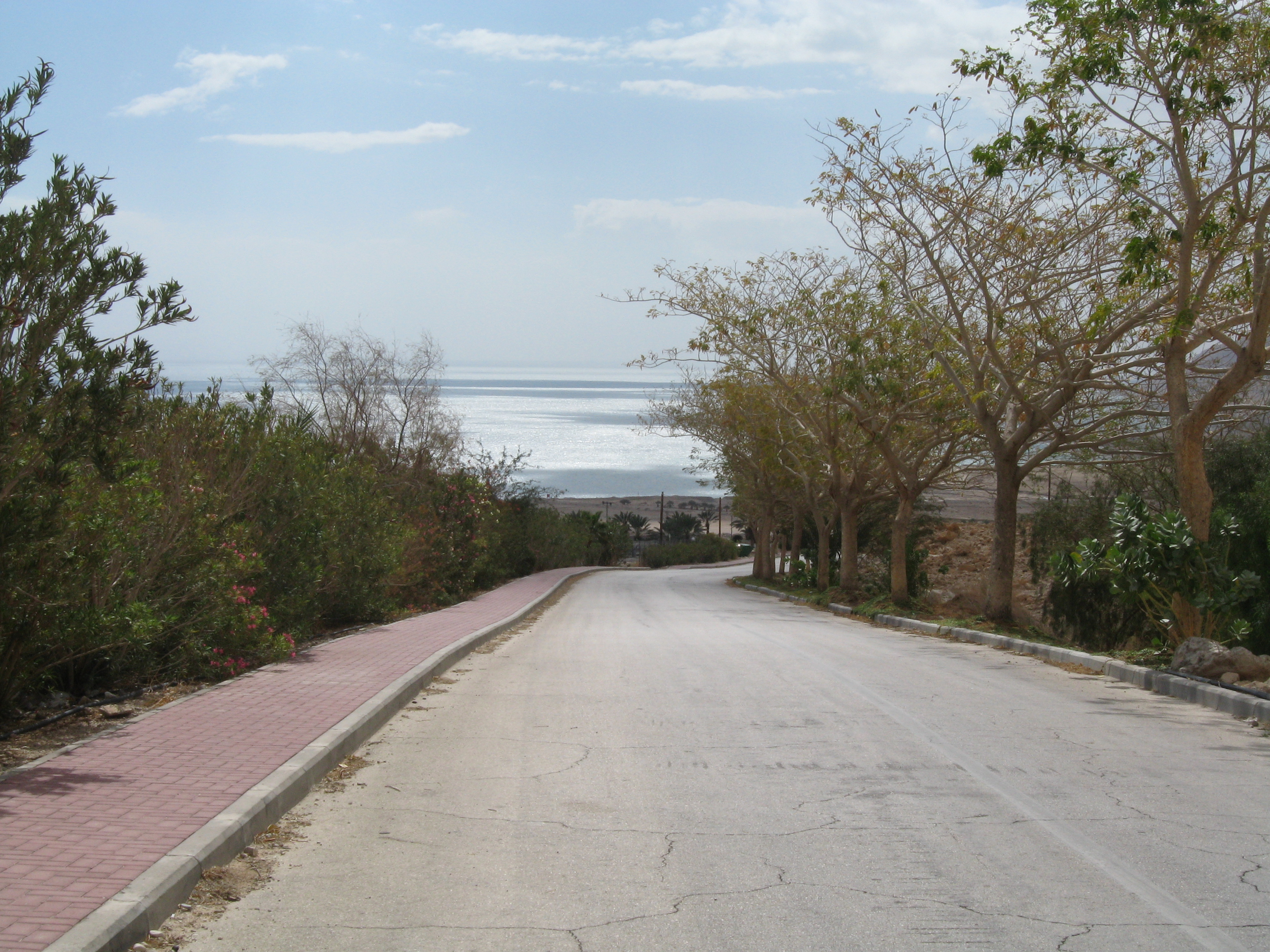 Road To Mitzpe Shalem